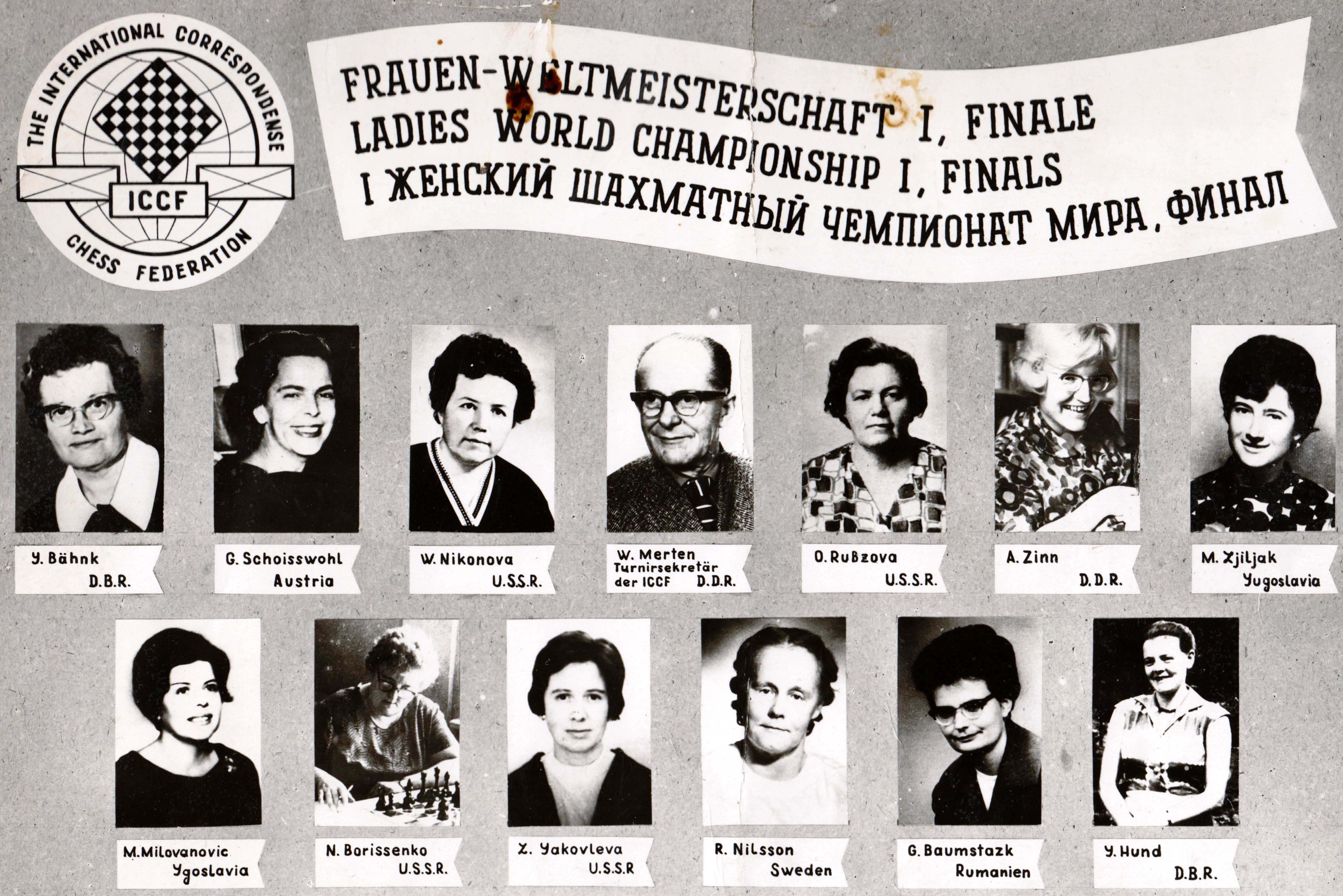 Official document of the ICCF (International Correspondence Chess Federation) concerning the finals of the first Correspondence Chess World Championship for Ladies (1968 to 1971).